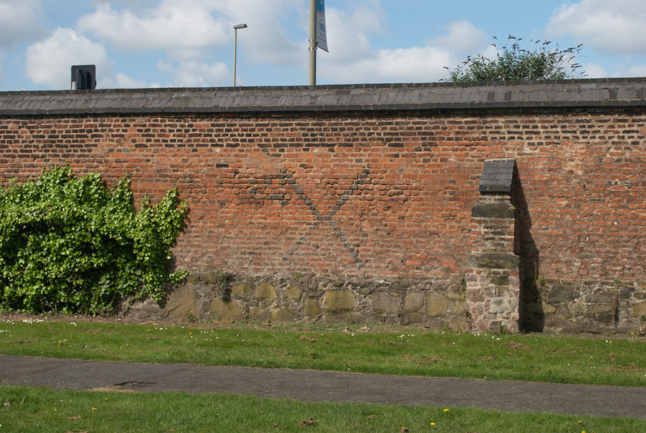 Decorative brickwork on Abbot Penny's Wall, west of the ruins of Leicester Abbey. The wall provides the western boundary of Abbey Park, Leicester. It is a Scheduled Monument and a Grade I listed building